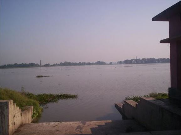 Baba Mahendra Nath Mandir Mehdar, Siwan , Bihar